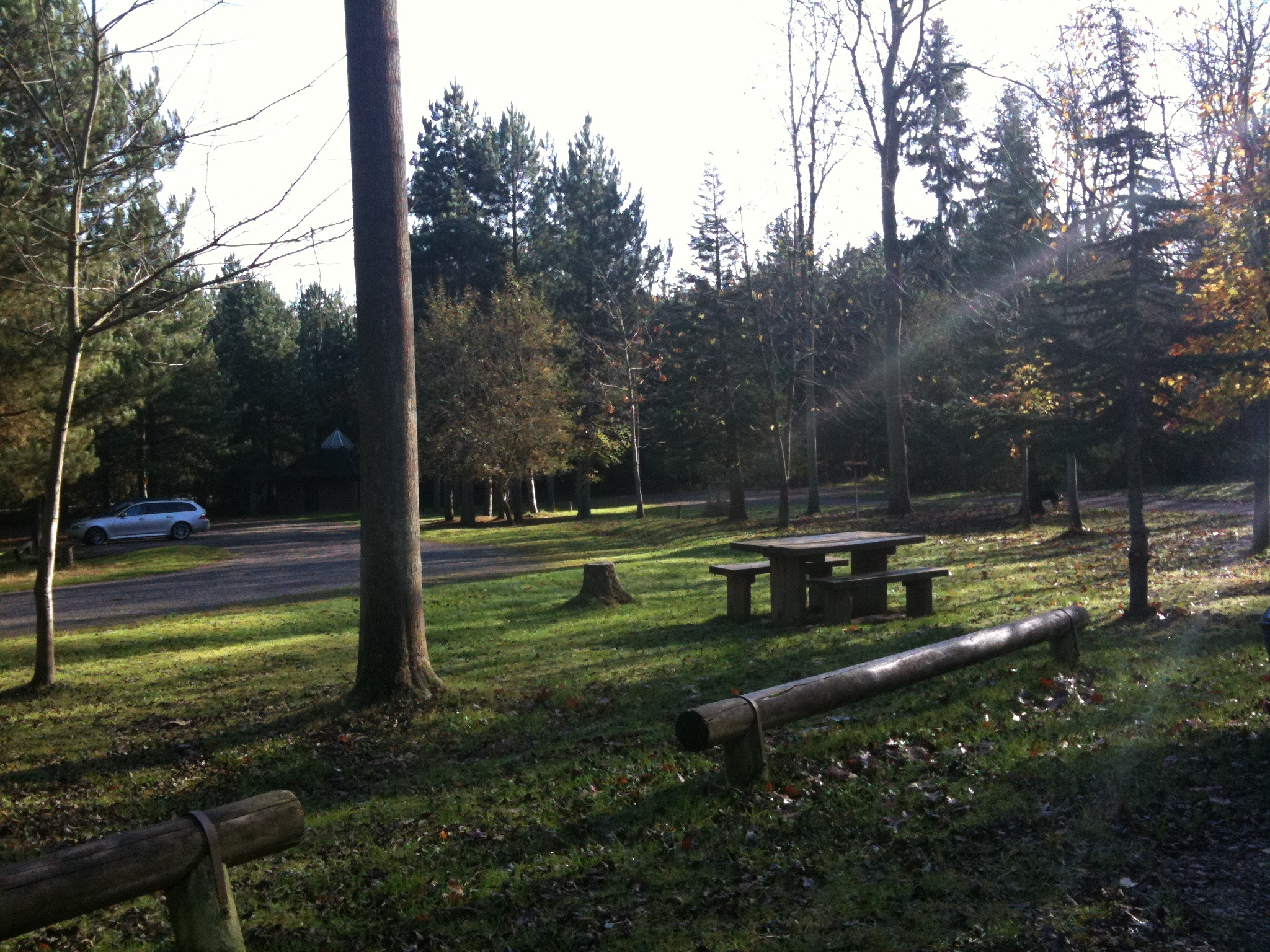 Autumn photograph of Bourne Woods